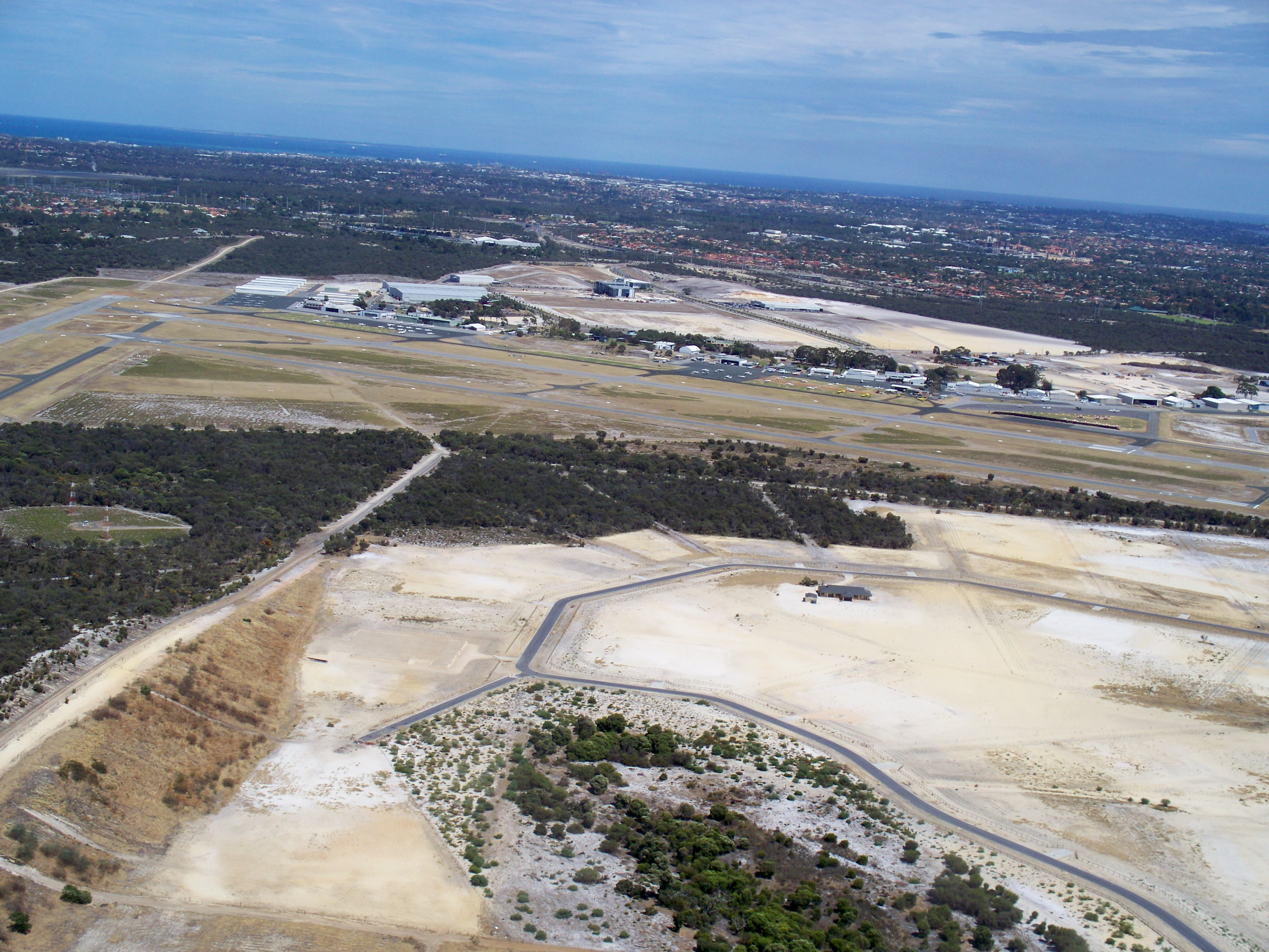 Jandakot Airport from an aircraft.